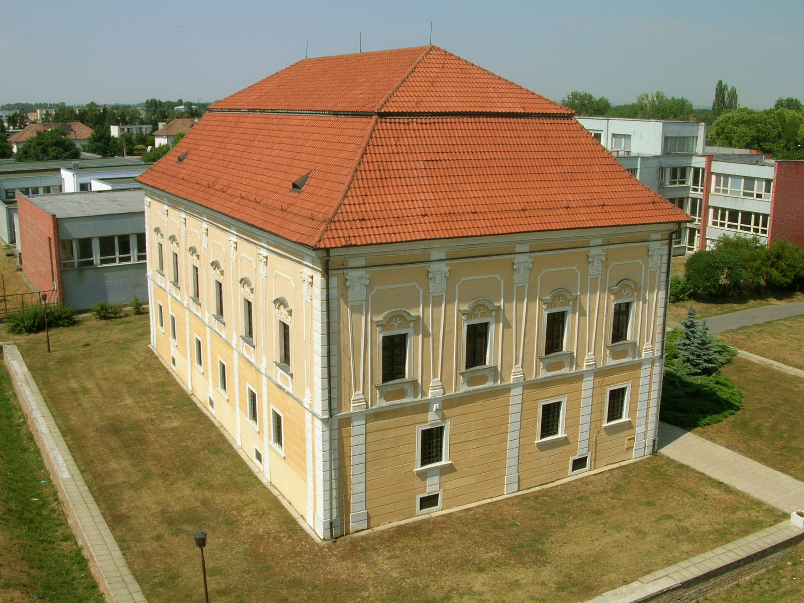 Renaissance fortified manor house in Galanta, Slovakia.